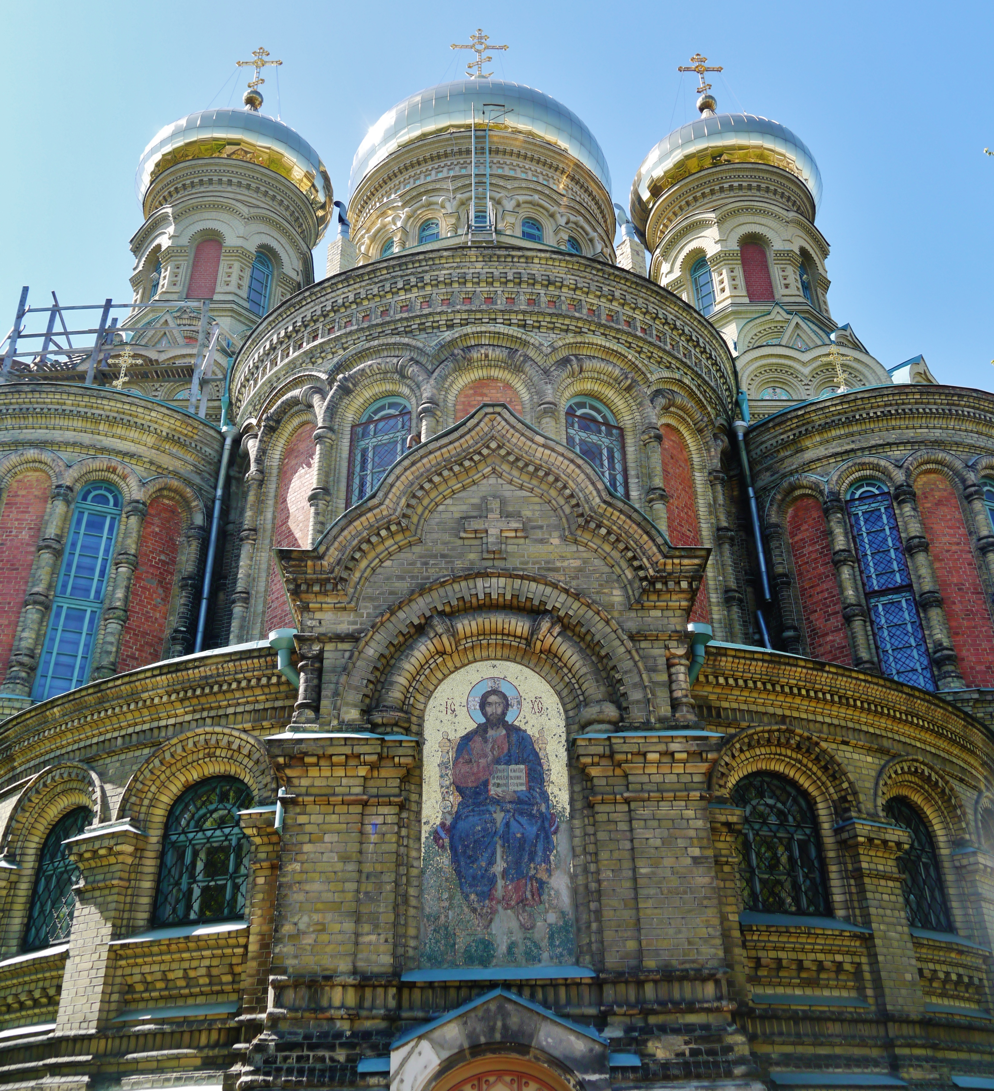 Choir of the Russian Orthodox Cathedral St. Nicholas, Liepaja-Karosta, Latvia